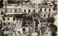 Damage from a fire on 31 July 1907 at St. John School for the Deaf in St. Francis, Wisconsin, United States.